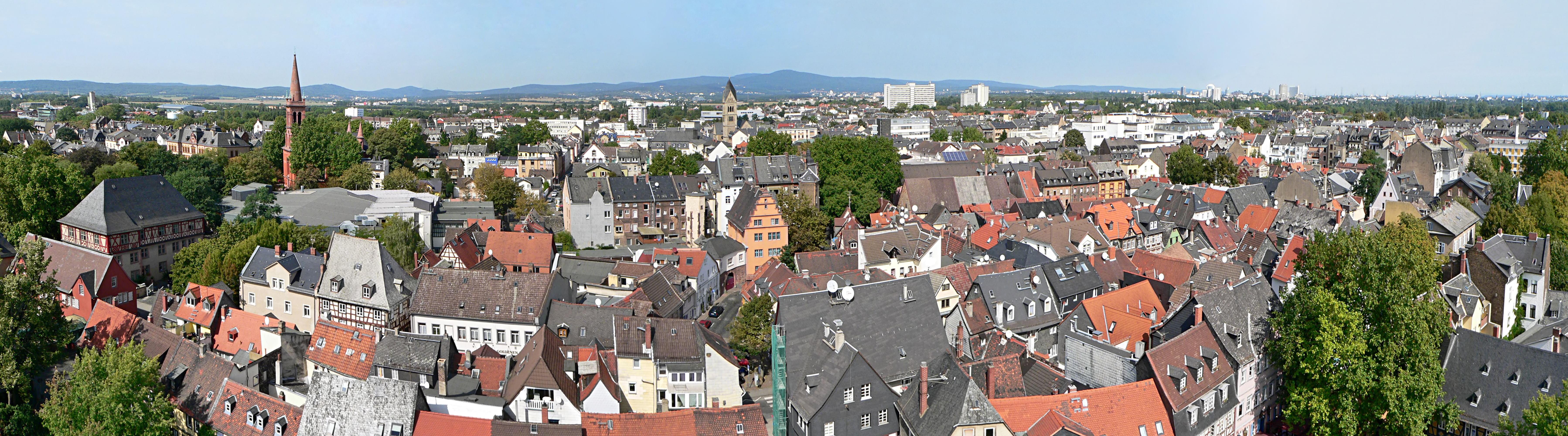 Frankfurt-Höchst from the castle's tower